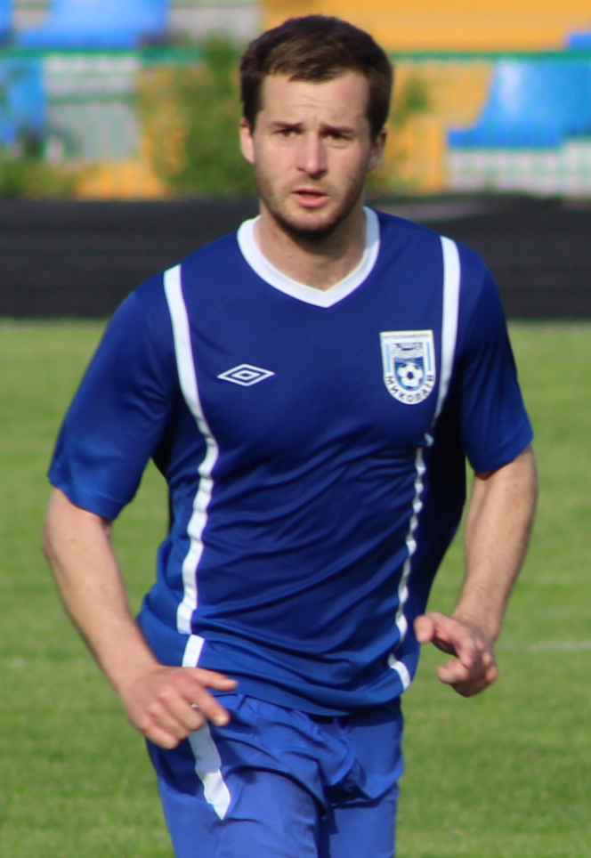 Dmytro Koshelyuk